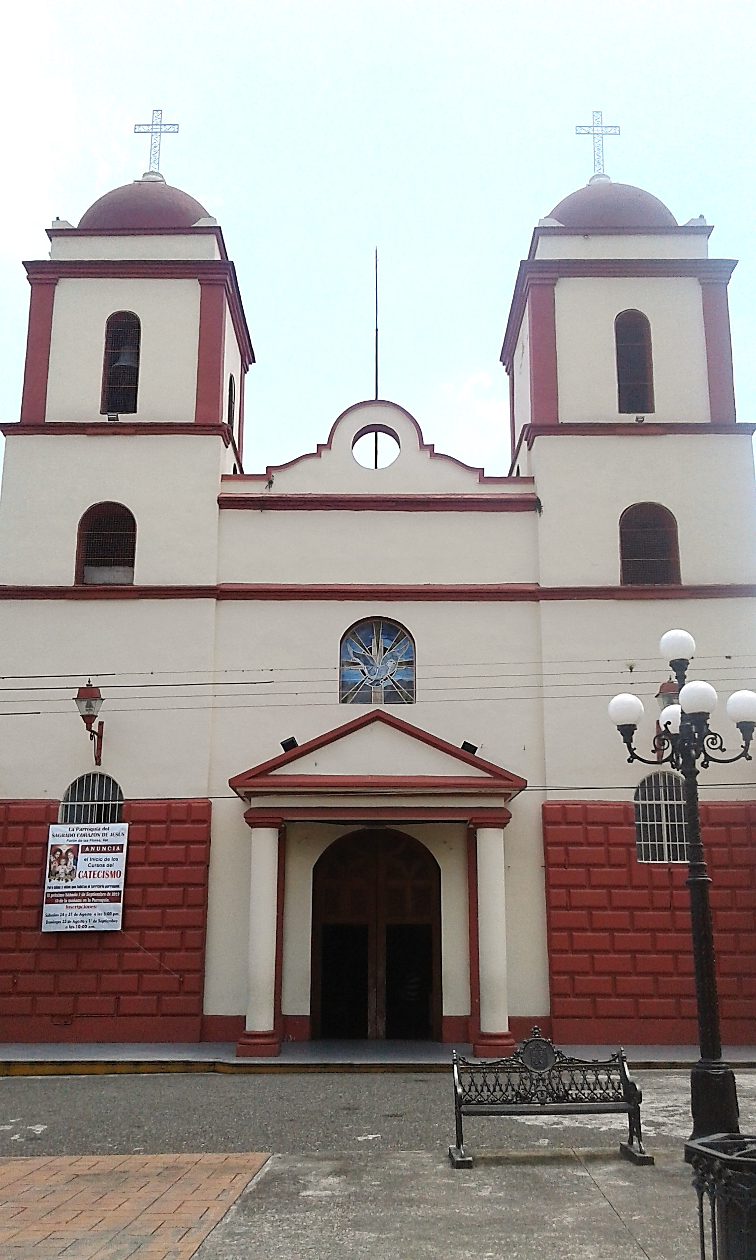 main parish of the city